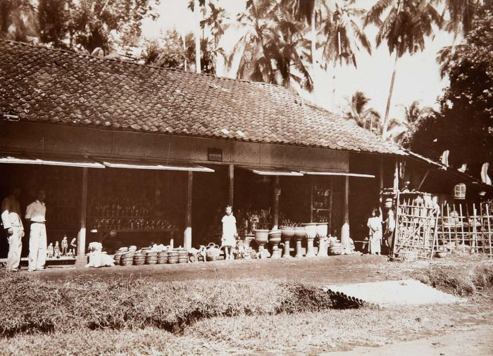 Pottery shop